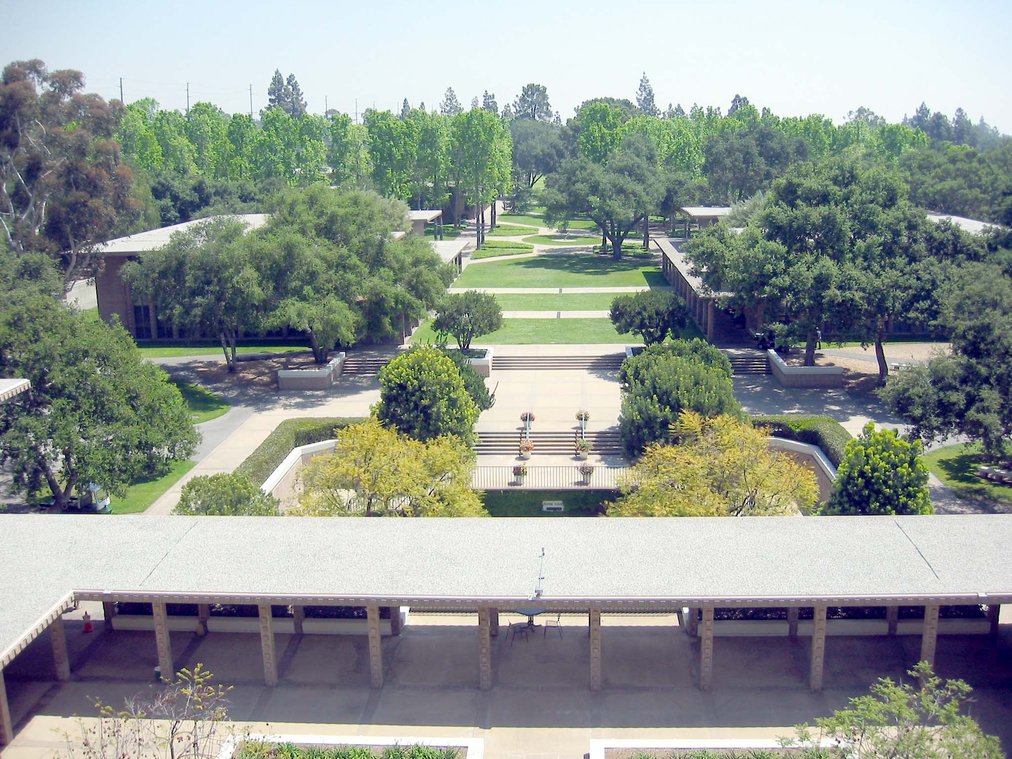 View from above central Harvey Mudd College, taken from the 5th floor of Sprague Library.